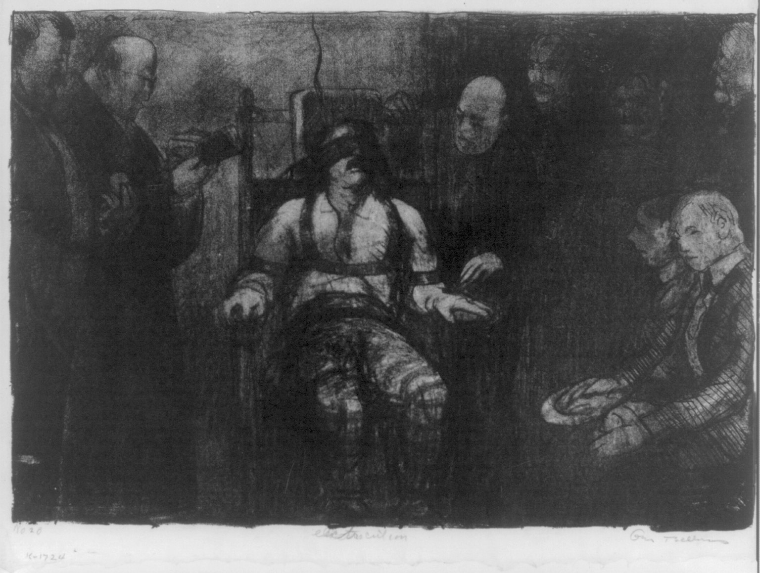 Title: Electrocution, [small] Abstract/medium: 1 print : lithograph ; 21 x 30 cm.